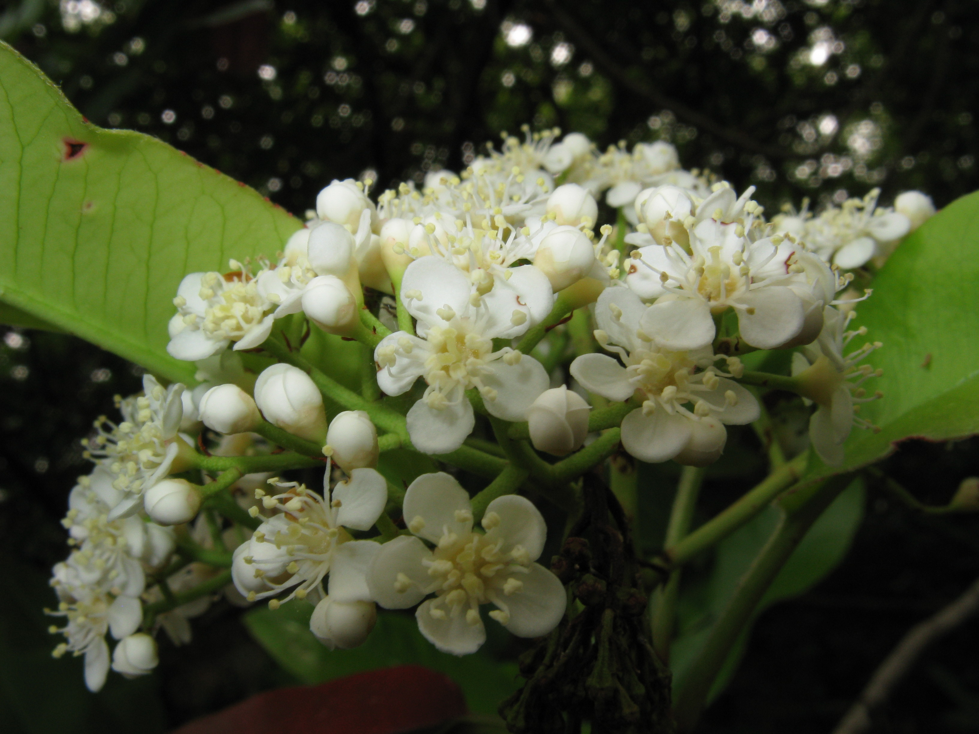 Photinia serratifolia